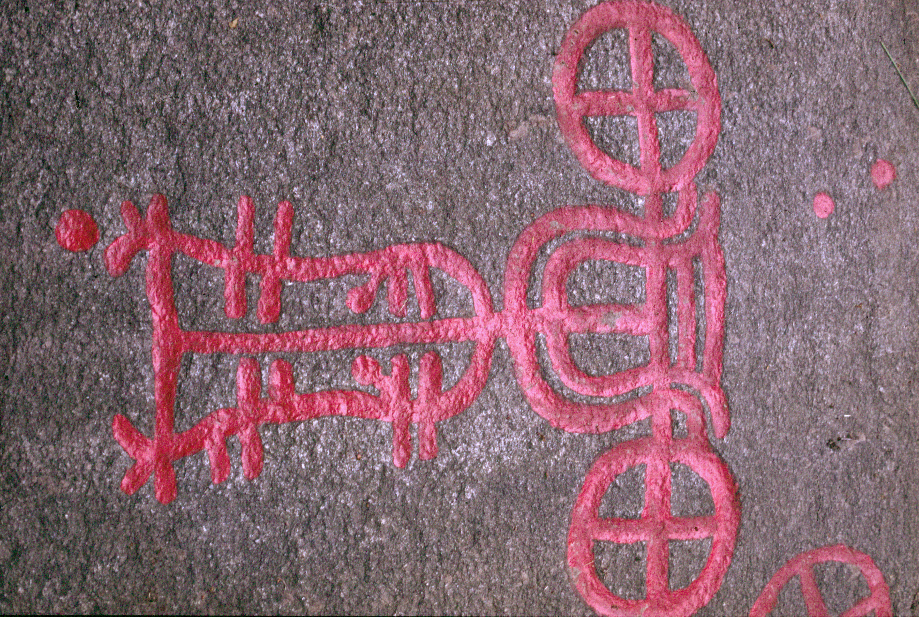 Rock carvings Gryt Sweden.